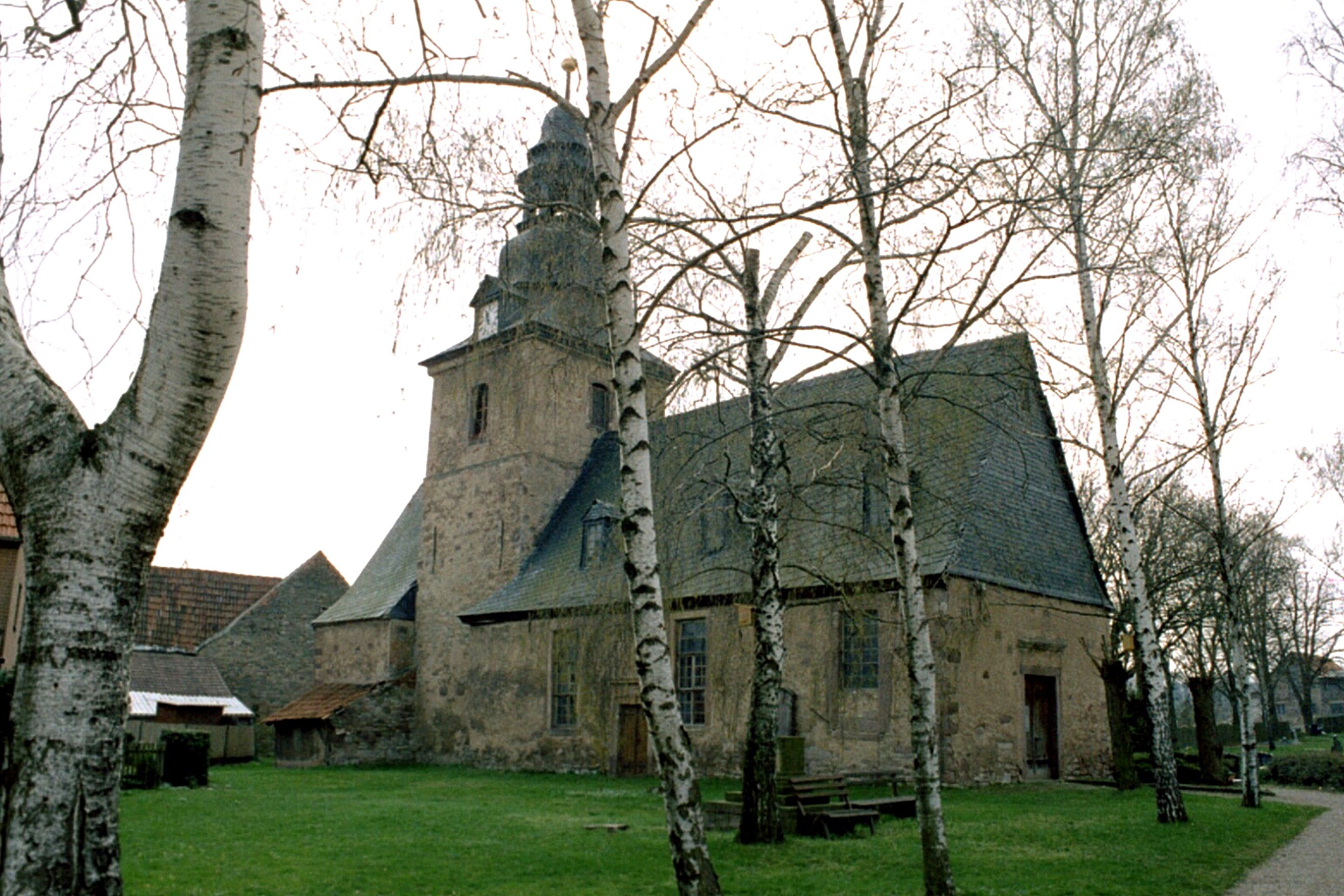 Riethnordhausen (Wallhausen), the village church